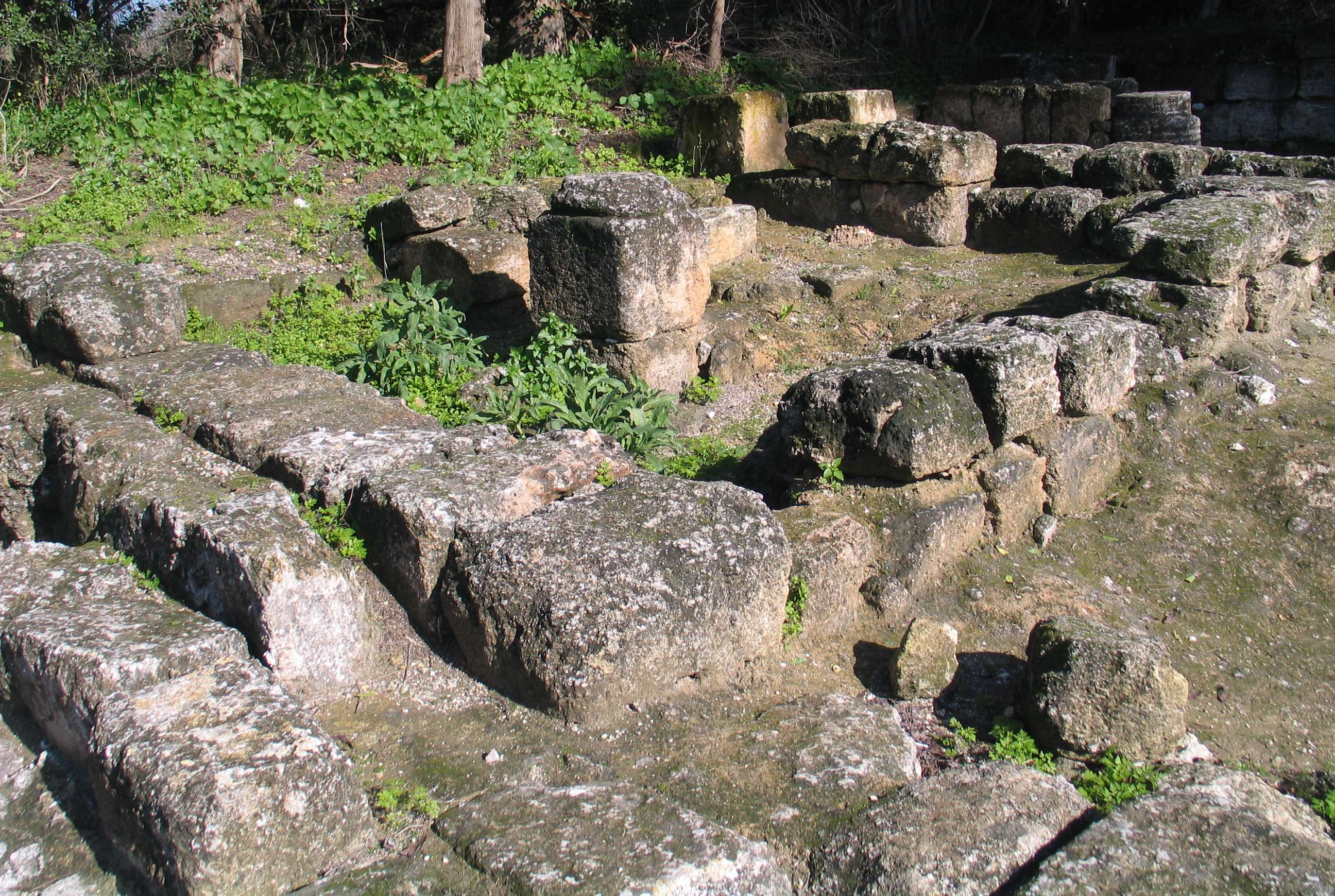 Beyt Sheraim synagogue.